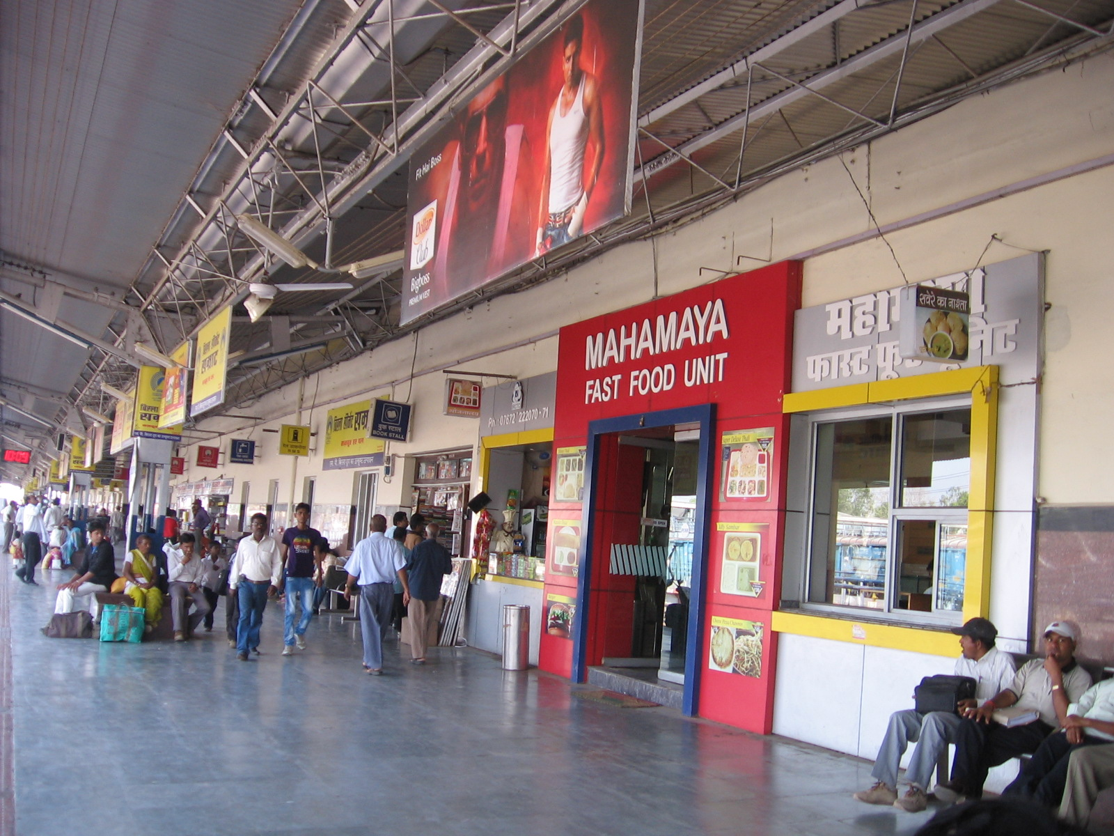 Inside view of the station